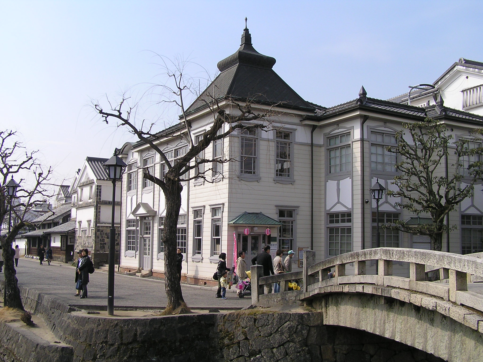 Kurashiki - Kan (Former Kurashiki town office)